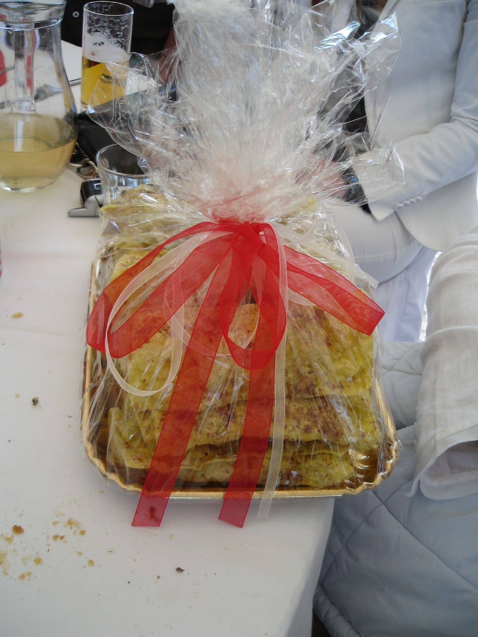 Diples is one classic greek sweet. Kalamata is considered to be the place that they produce the best quality of Diples in Greece.